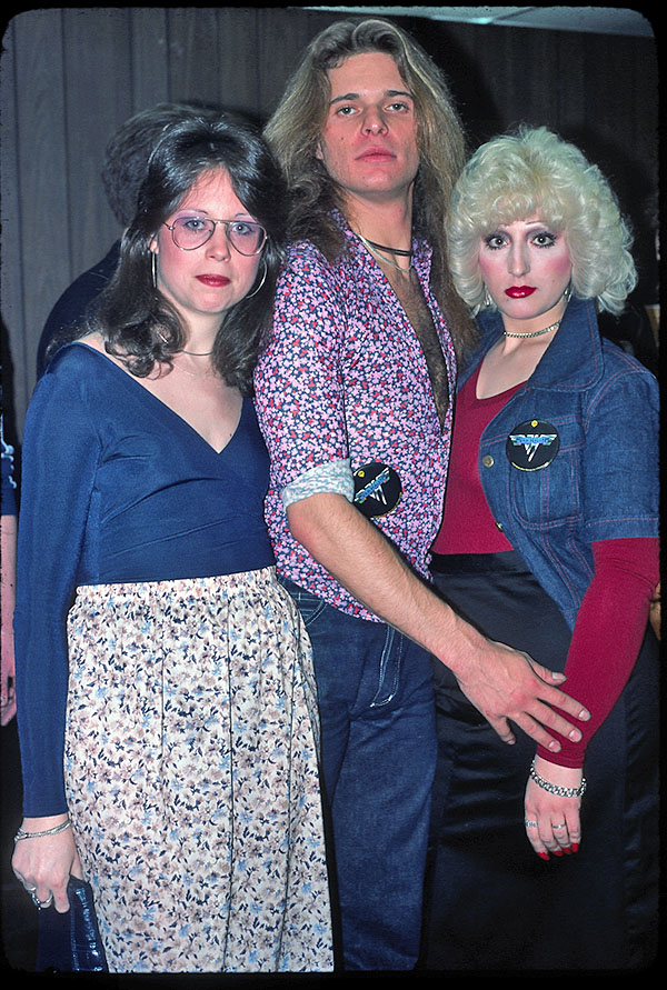 Singer David Lee Roth with two unknown women